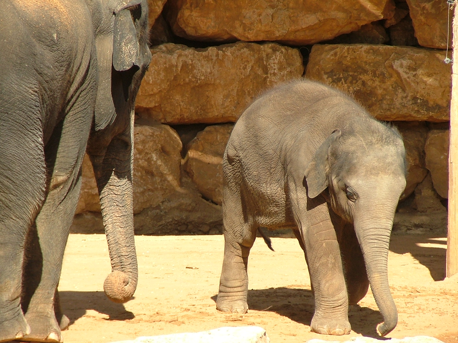 A 13-month-old baby Asian Elephant (Elephas maximus), named Gabi, at the Jerusalem Biblical Zoo.